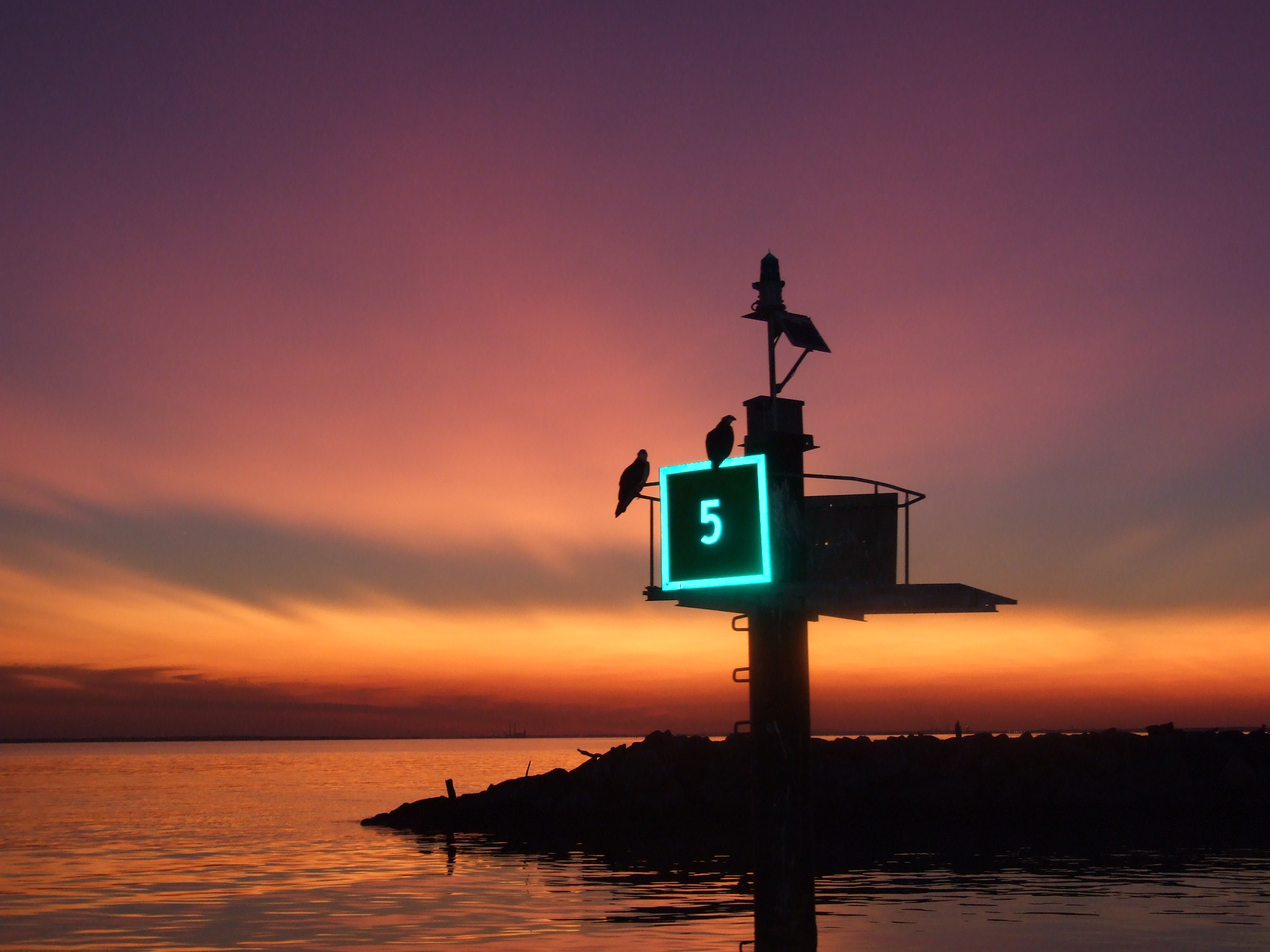 Entrance marker to Rock Hall Harbor